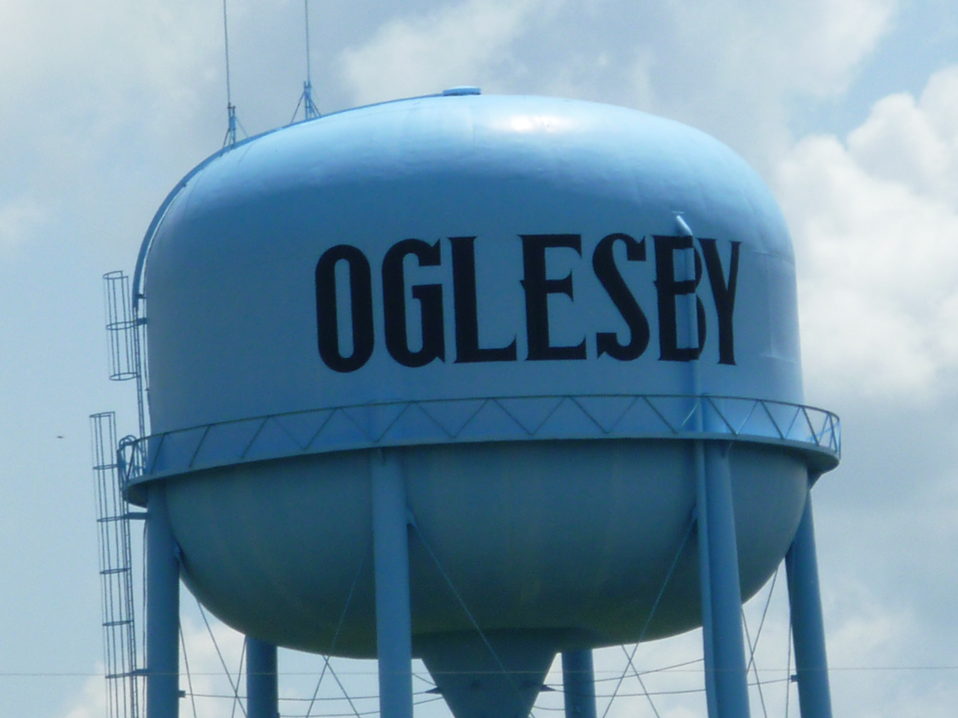 Oglesby, Il watertower